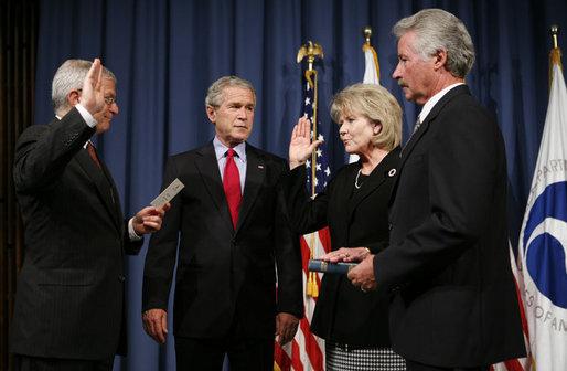 President Attends Swearing-In Ceremony for Mary Peters as Secretary of Transportation President George W. Bush attends the ceremonial swearing-in of Mary Peters as the 15th U.S. Secretary of Transportation, Tuesday, Oct. 17, 2006 at the Department of Transportation in Washington, D.C., as White House Chief of Staff Josh Bolten administers the oath of office and Peter’s husband, Terryl "Terry" Peters, Sr. holds the bible. White House photo by Paul Morse